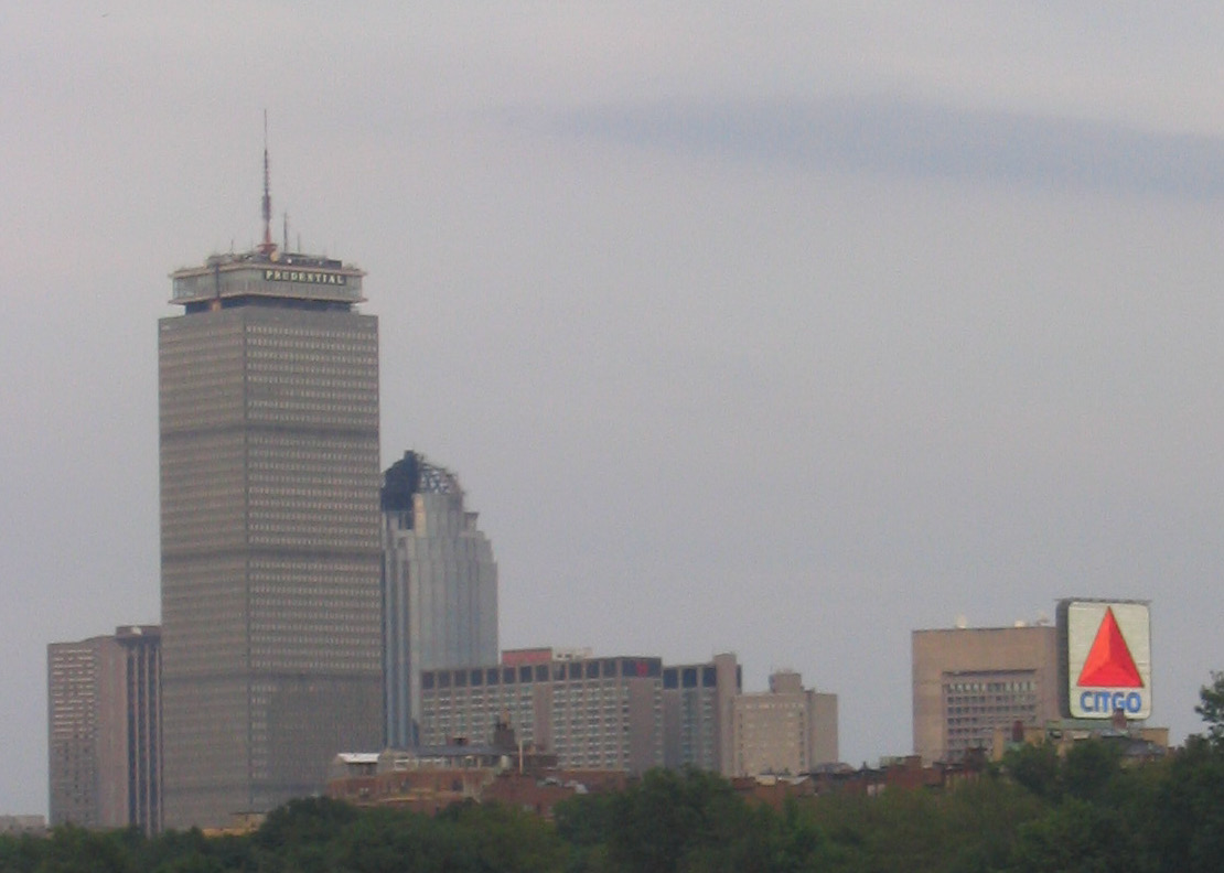 A photograph of Boston, Massachusetts's Prudential Building (left) and Citgo sign (right), among others.